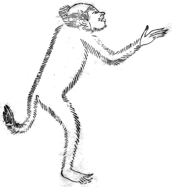 "Shinbatsu" (神魃, The Drought Spirit) from the Sancai Tuhui (三才图会, Chinese picture)